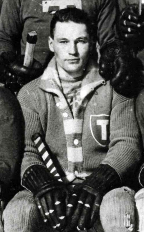 Scotty Davidson as a member of the 1913-14 Toronto Blue Shirts